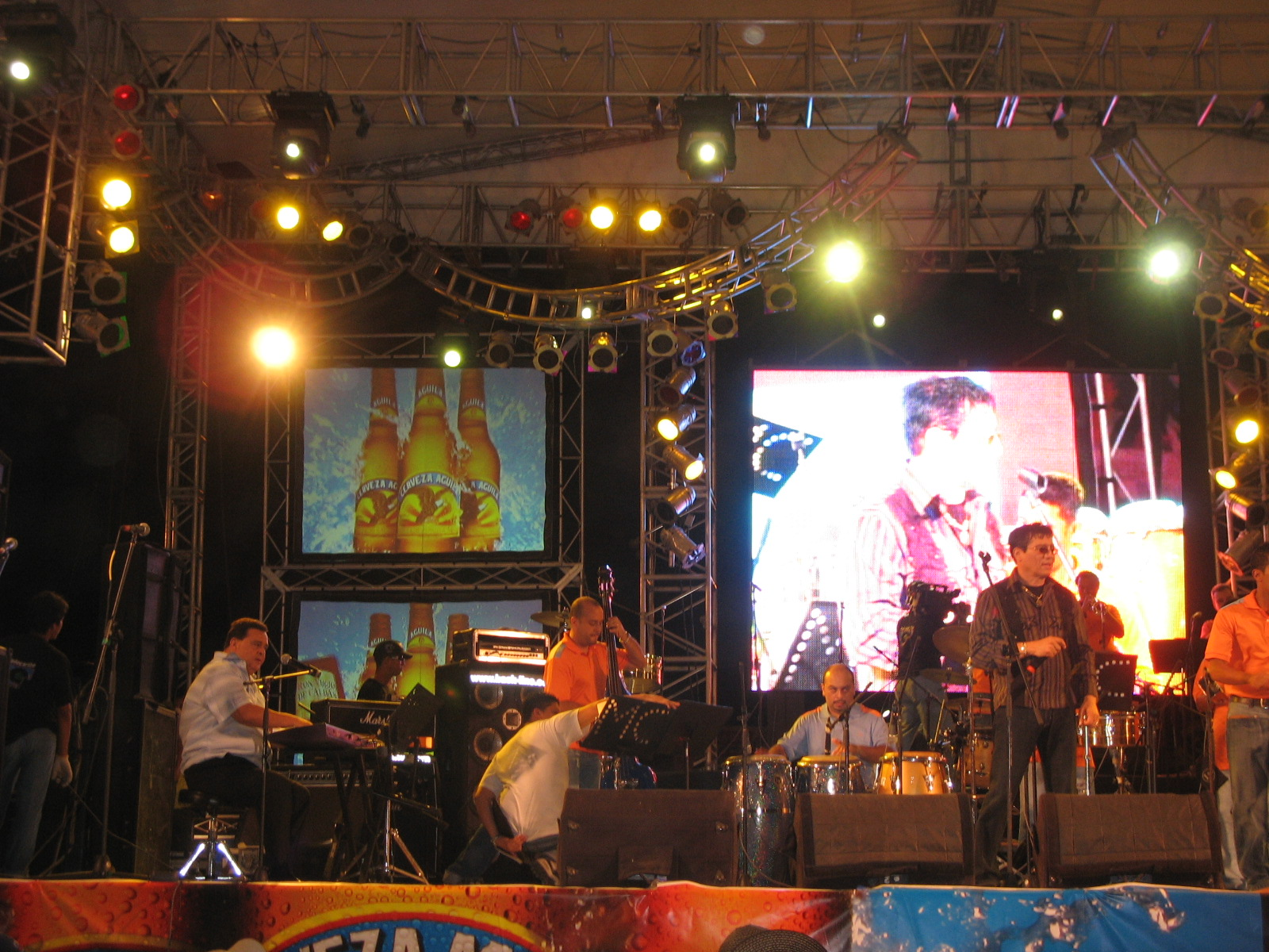 Festival de Orquestas 2007 Barranquilla